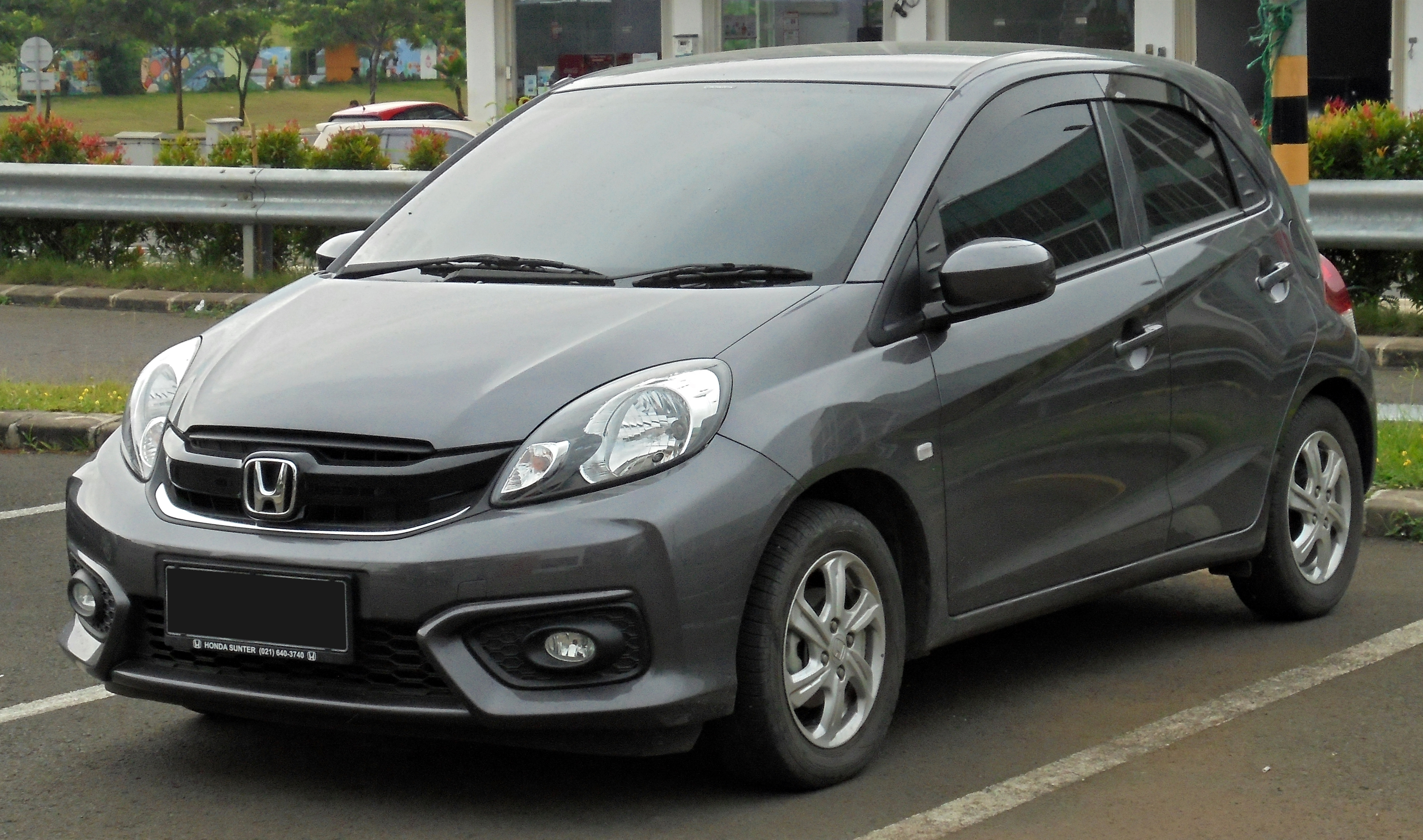 2018 Honda Brio Satya 1.2 E hatchback (DD1) photographed in South Tangerang, Banten, Indonesia.